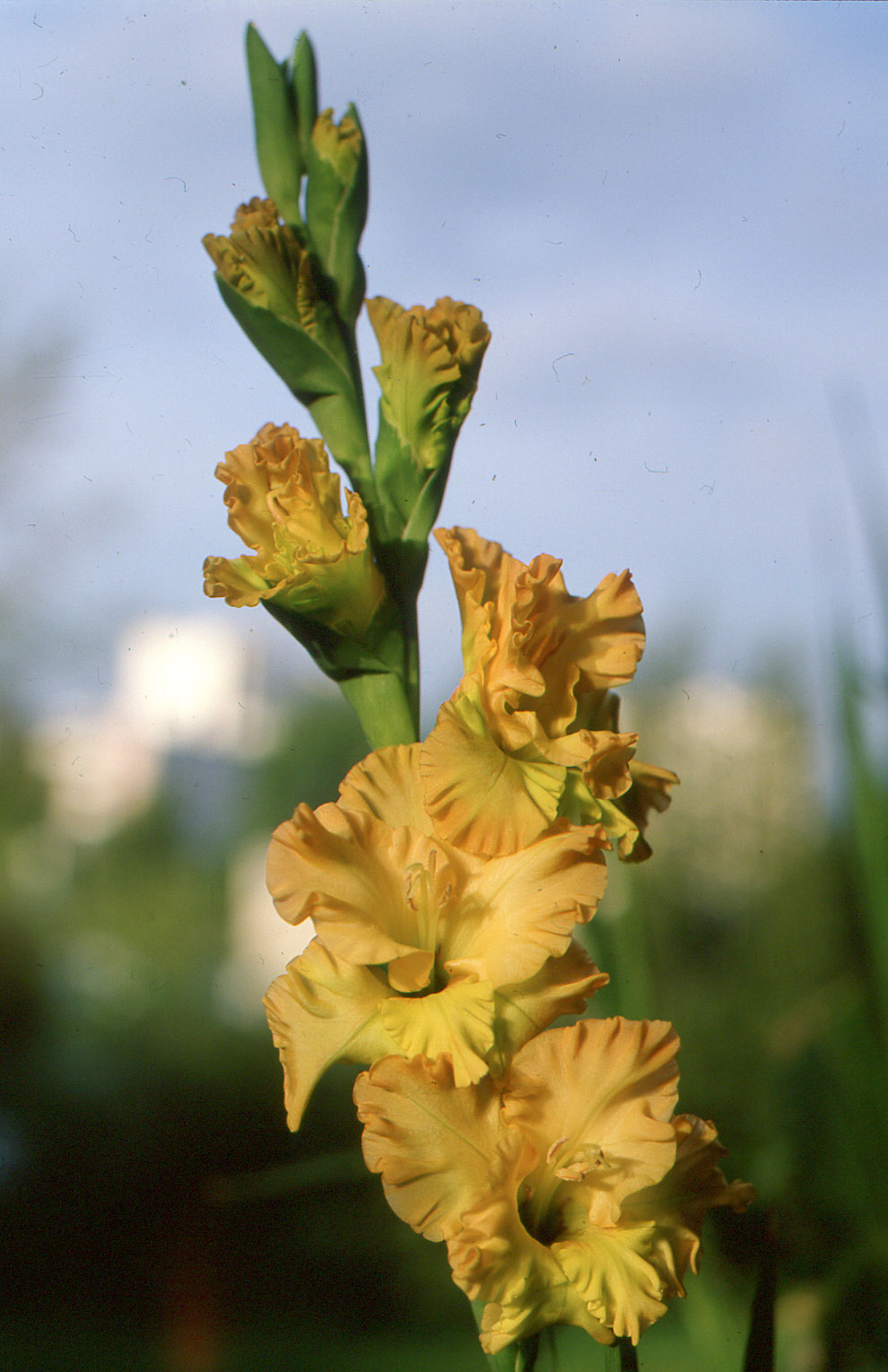 Gladiolus "Dykhanie Oseni" breeder Vasiliev